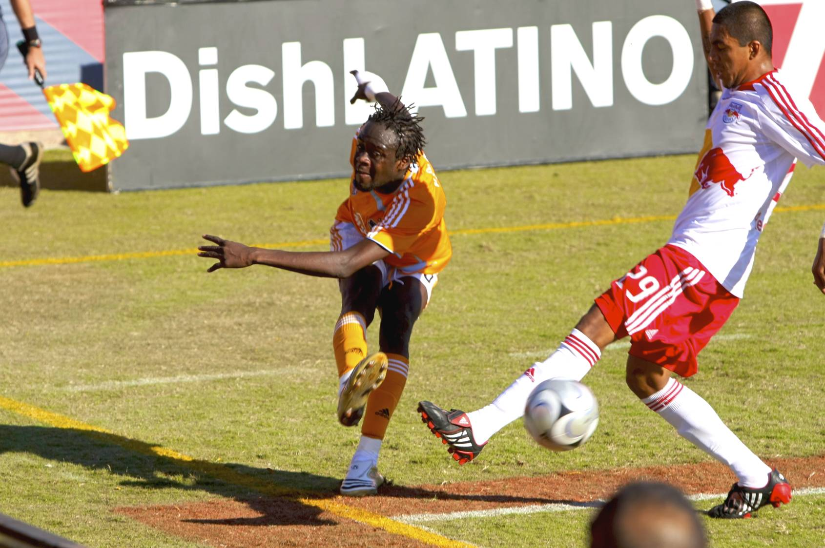 Houston Dynamo vs Red Bull New York, 2009